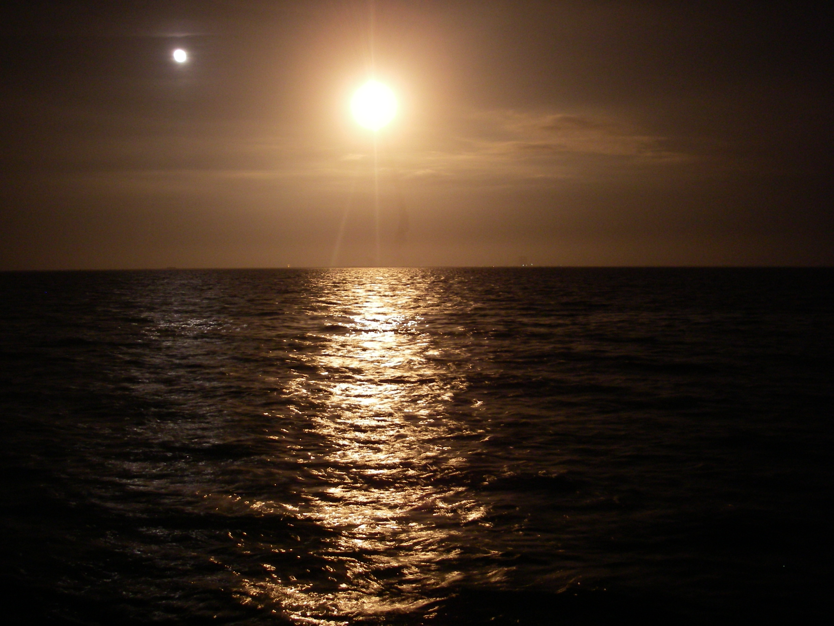 STS-126 launch viewed over the Indian River at Titusville.